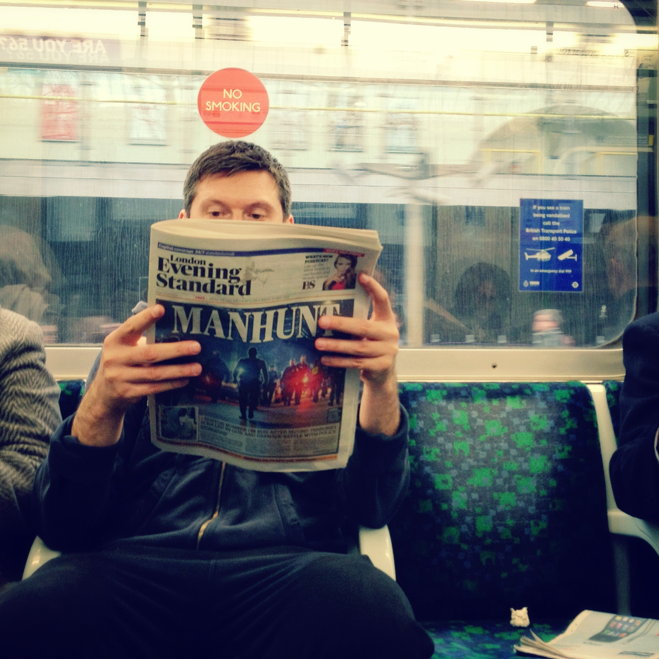 Reading about the Boston Marathon bombing manhunt in the London Evening Standard on the Tube. London - April, 2013